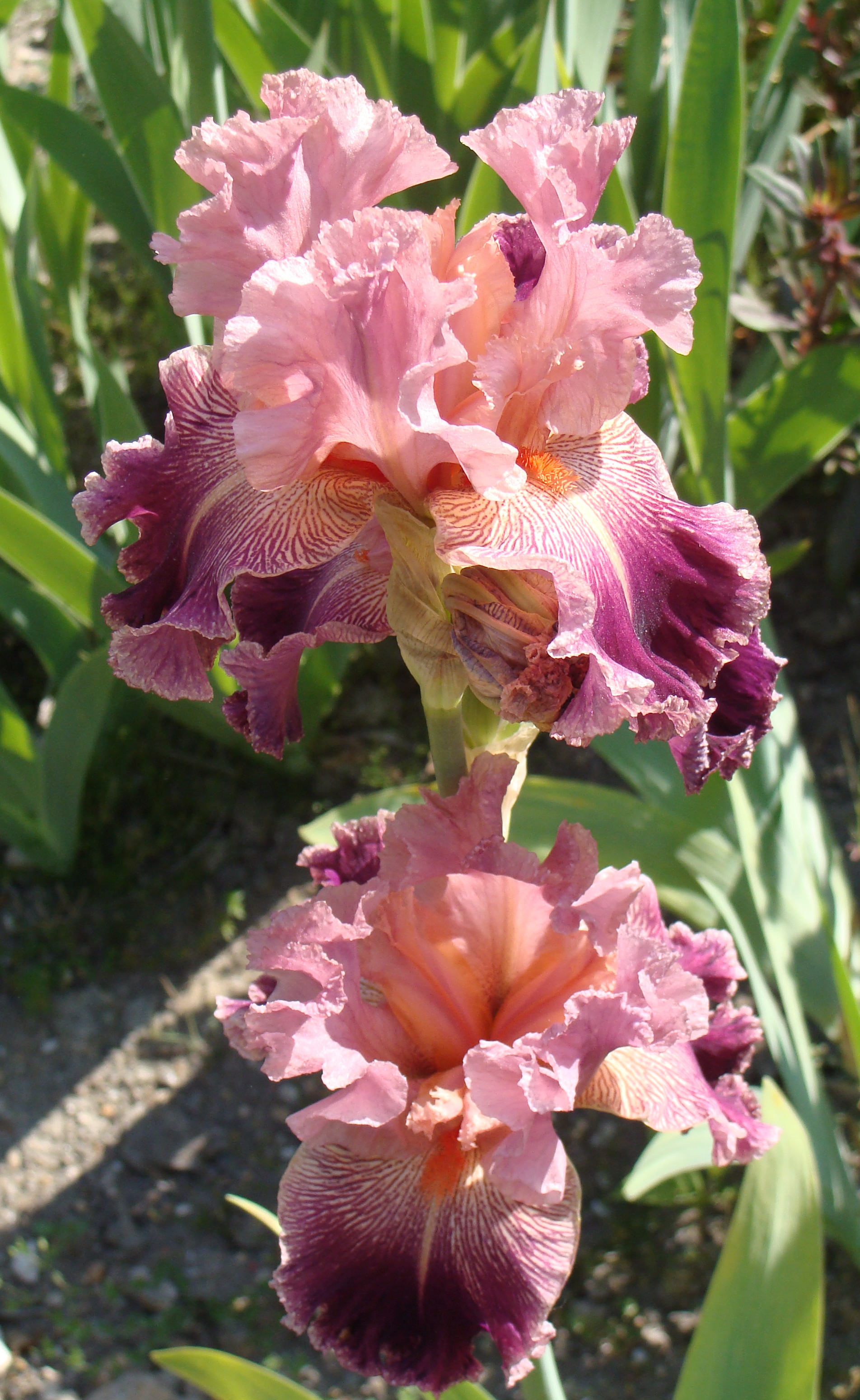 Iris germanica (barbata) elatior GR, 'barocco', cultivar, Jardin des iris, Jardin des Plantes, Paris